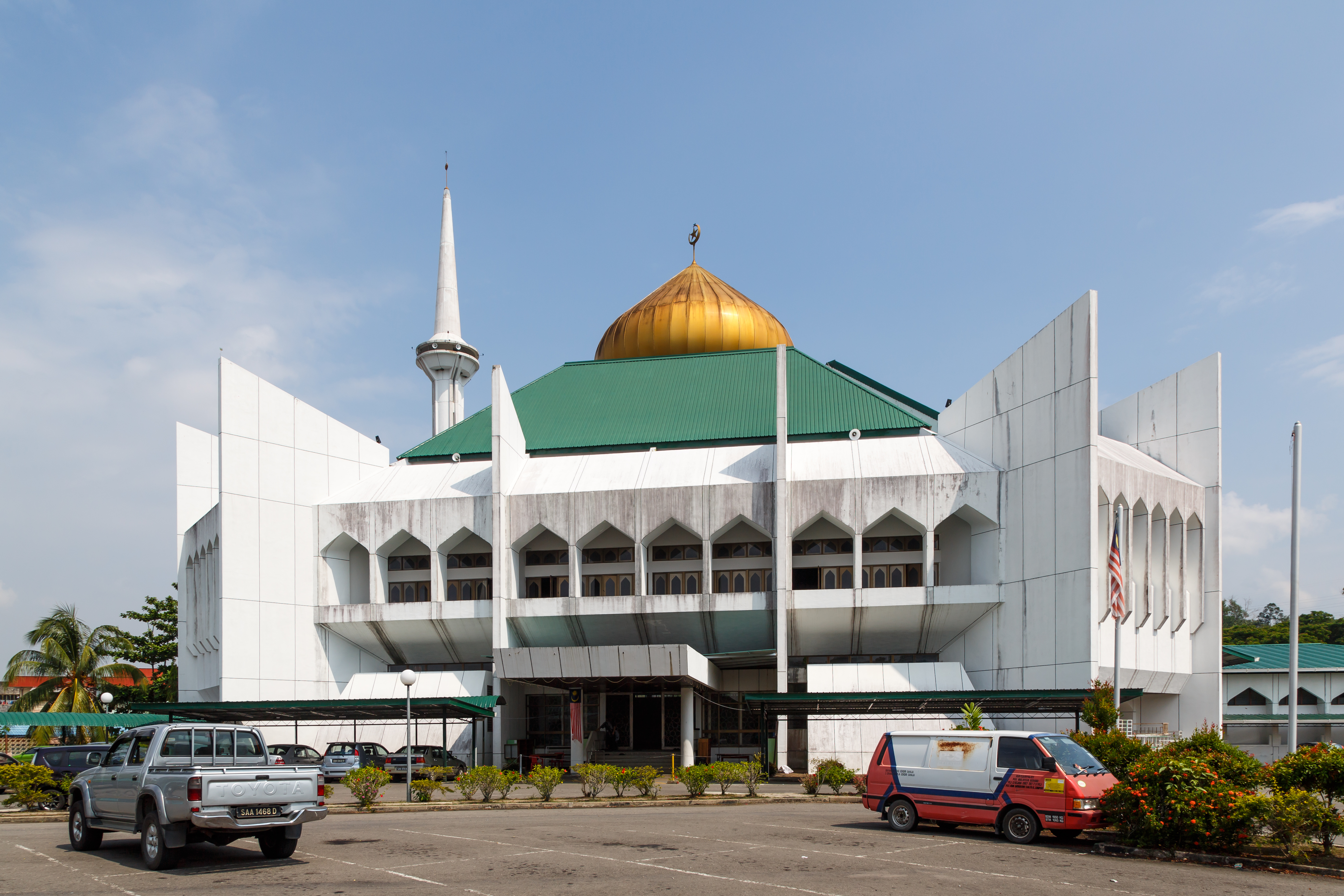 Beaufort, Sabah: Masjid Daerah Beaufort (Beaufort District Mosque)